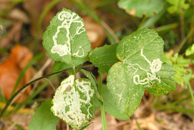 Phytomyza angelicastri from Commanster, Belgian High Ardennes .